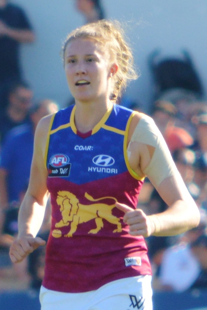 Tahlia Randall in March 2017 at Princes Park in Carlton North.